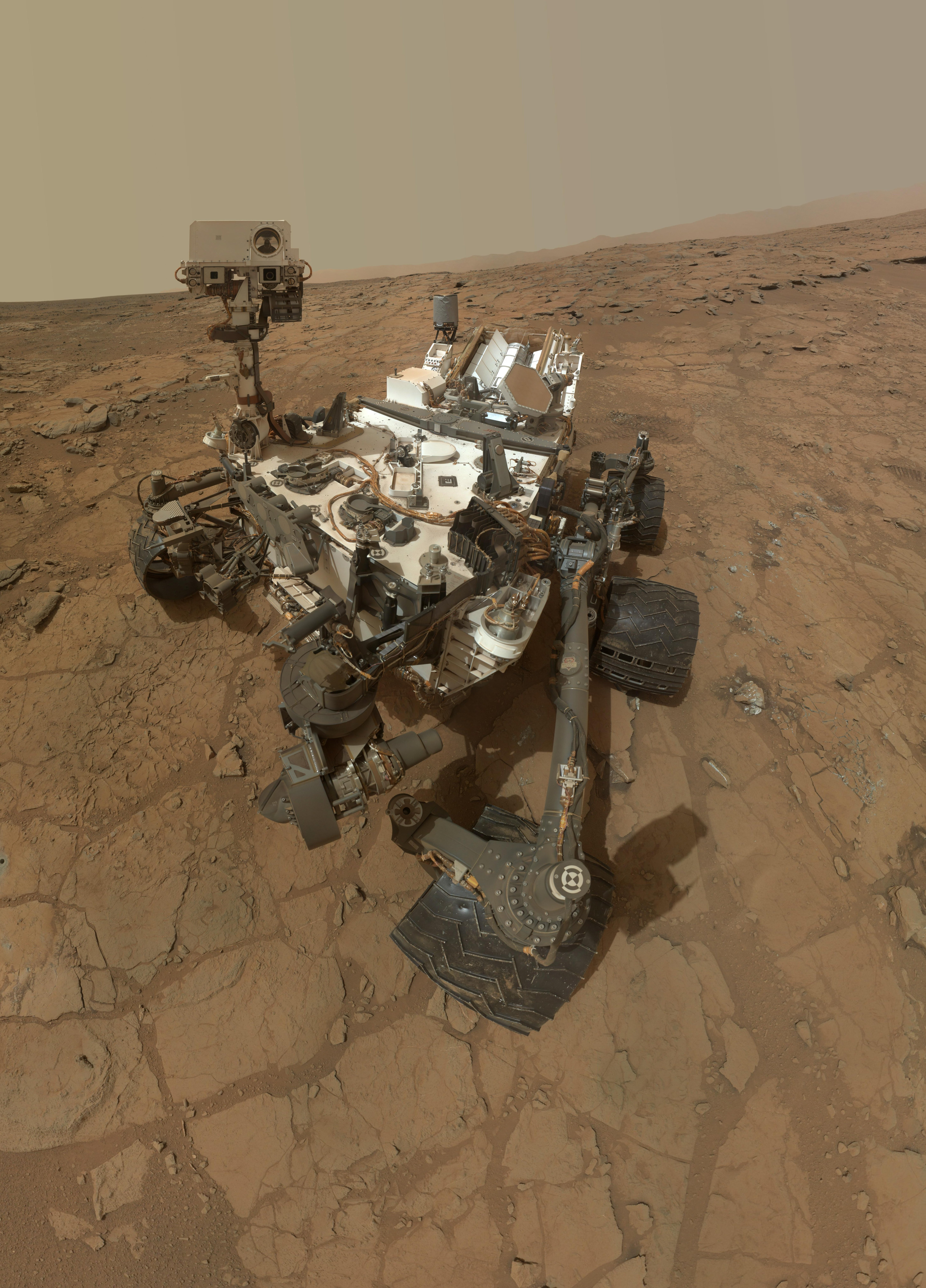 PIA16937: Updated Curiosity Self-Portrait at 'John Klein' This self-portrait of NASA's Mars rover Curiosity combines dozens of exposures taken by the rover's Mars Hand Lens Imager (MAHLI) during the 177th Martian day, or sol, of Curiosity's work on Mars (Feb. 3, 2013), plus three exposures taken during Sol 270 (May 10, 2013) to update the appearance of part of the ground beside the rover. The updated area, which is in the lower left quadrant of the image, shows gray-powder and two holes where Curiosity used its drill on the rock target "John Klein." The portion has been spliced into a self-portrait that was prepared and released in February (PIA16764), before the use of the drill. The result shows what the site where the self-portrait was taken looked like by the time the rover was ready to drive away from that site in May 2013. The rover's robotic arm is not visible in the mosaic. MAHLI, which took the component images for this mosaic, is mounted on a turret at the end of the arm. Wrist motions and turret rotations on the arm allowed MAHLI to acquire the mosaic's component images. The arm was positioned out of the shot in the images, or portions of images, used in the mosaic. Malin Space Science Systems, San Diego, developed, built and operates MAHLI. NASA's Jet Propulsion Laboratory, Pasadena, Calif., manages the Mars Science Laboratory Project and the mission's Curiosity rover for NASA's Science Mission Directorate in Washington. The rover was designed and assembled at JPL, a division of the California Institute of Technology in Pasadena. For more about NASA's Curiosity mission, visit: and